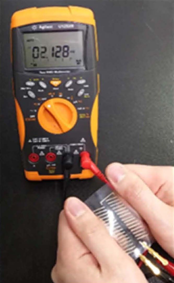 Generation of electricity by grabbing both sides of a PEDOT:PSS thermoelectric array at room temperature